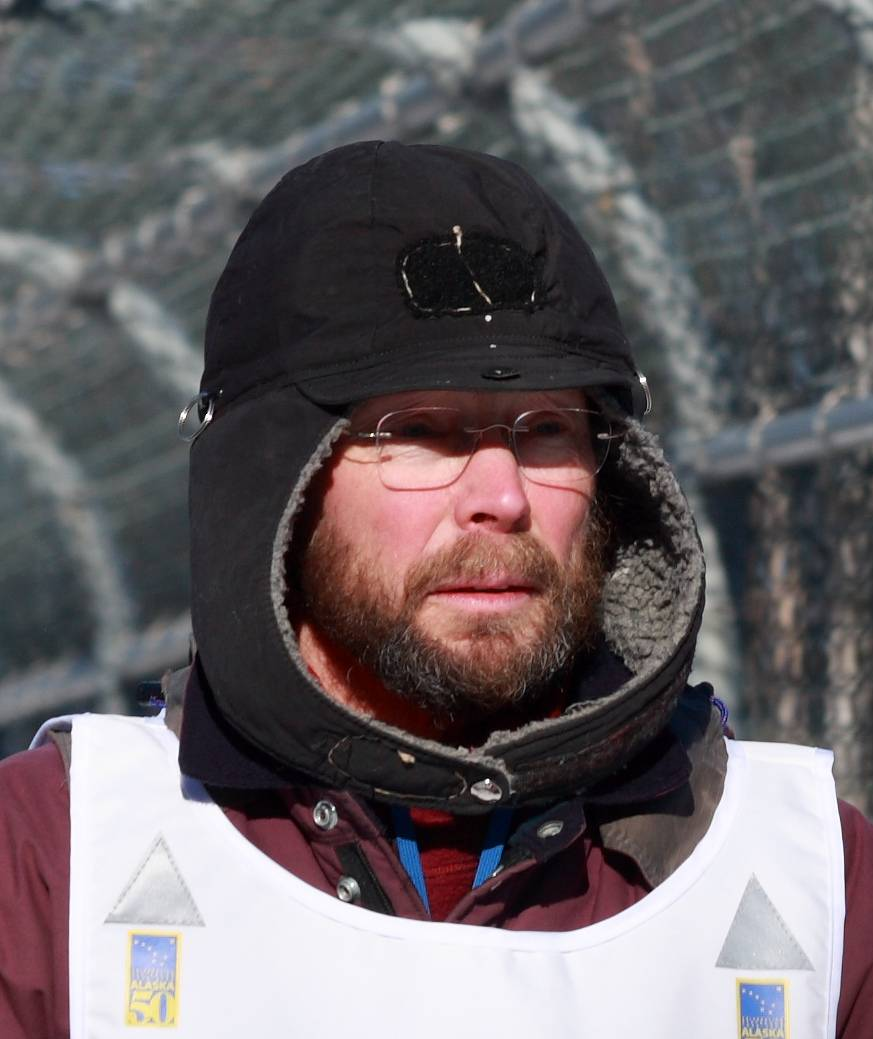 I took these photos on 8 March 2009 at the ceremonial start of the Iditarod sled dog race in Anchorage, Alaska. This was the 37th running of The Last Great Race. I get a thrill out of each race - the dogs were born to run and it is another thing that makes me proud to be an Alaskan! Note: for the ceremonial run the mushers have paying passengers - I think they are called Iditariders - these people bid on a chance to go on the ceremonial run. The actual Iditarod starts from Willow, Alaska, on the day after the ceremonial start, minus the Iditariders.